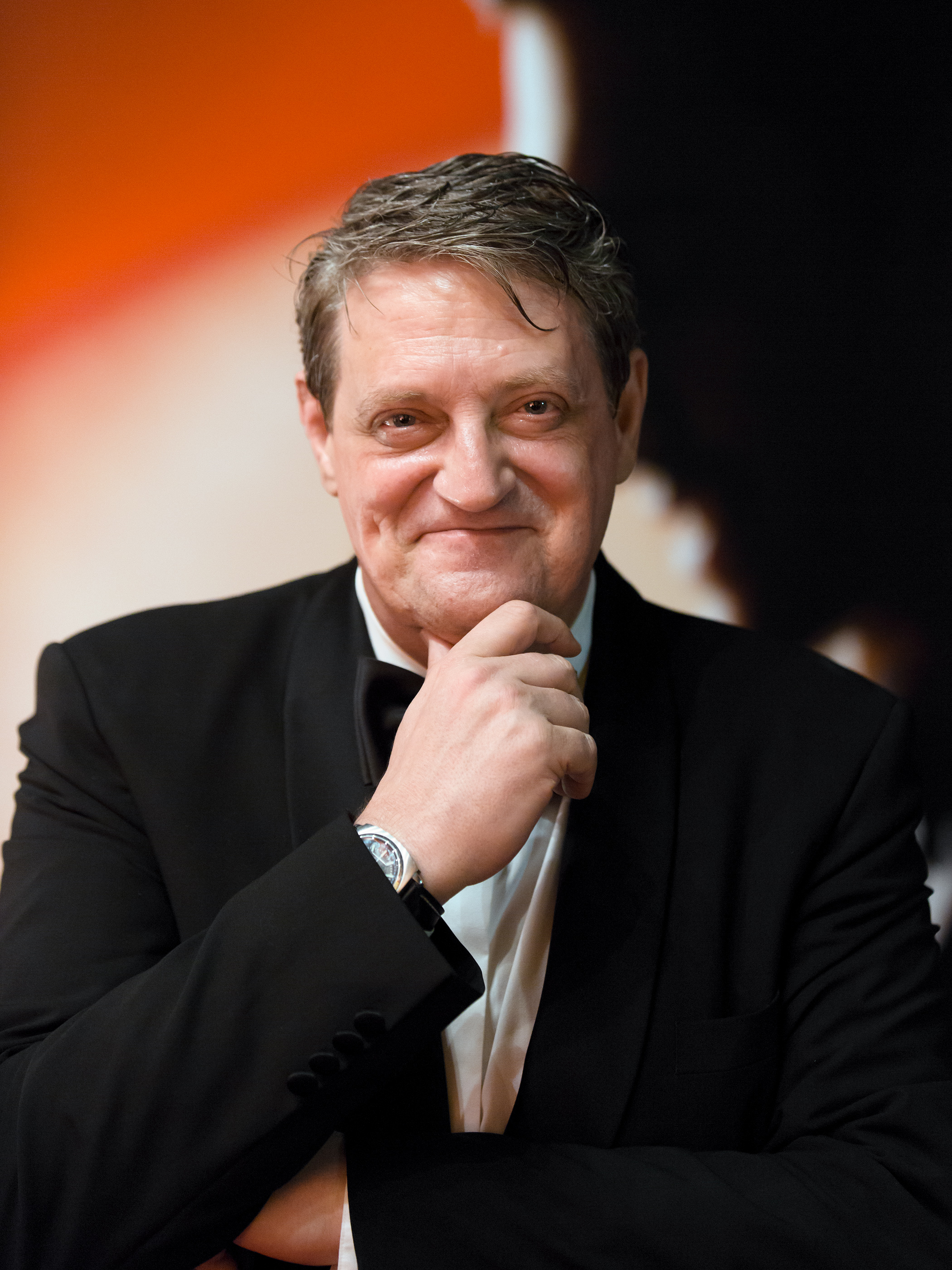 Dieter Chmelar on the red carpet of the Romy TV awards 2016 at Hofburg Palace in Vienna, Austria.